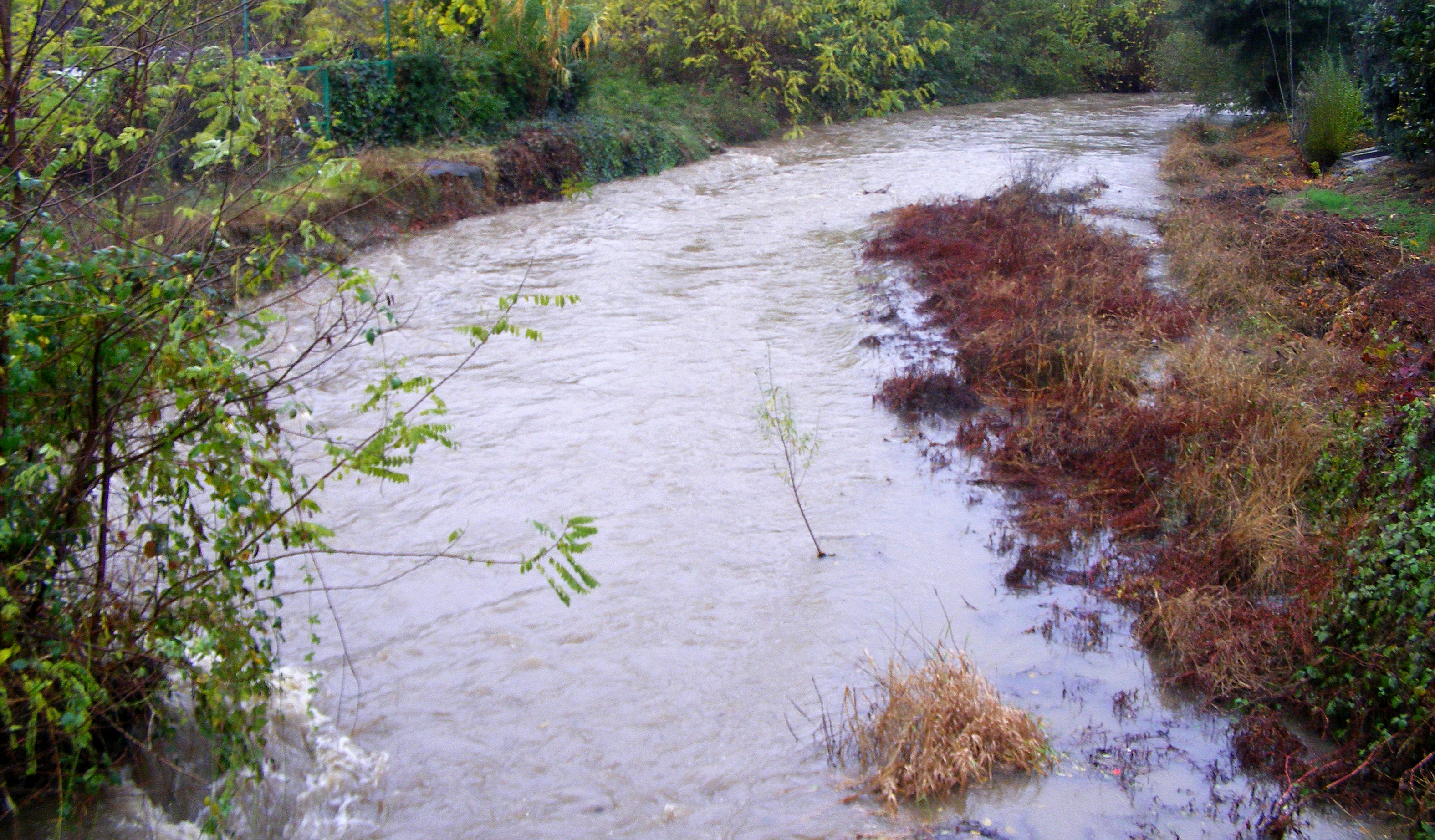 Bendola near Volpiano, November 2011 (TO, Italy)